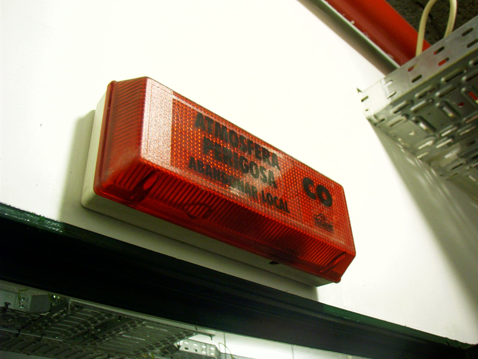 Sign that lights up if carbon monoxide is present behind the door. Taken at "Hotel Mundial" in Lisboa, Portugal.